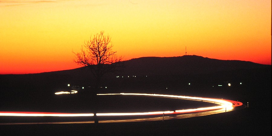 Hesselberg in the late evening light Photographed in May 1993 Author: Oswald Engelhardt